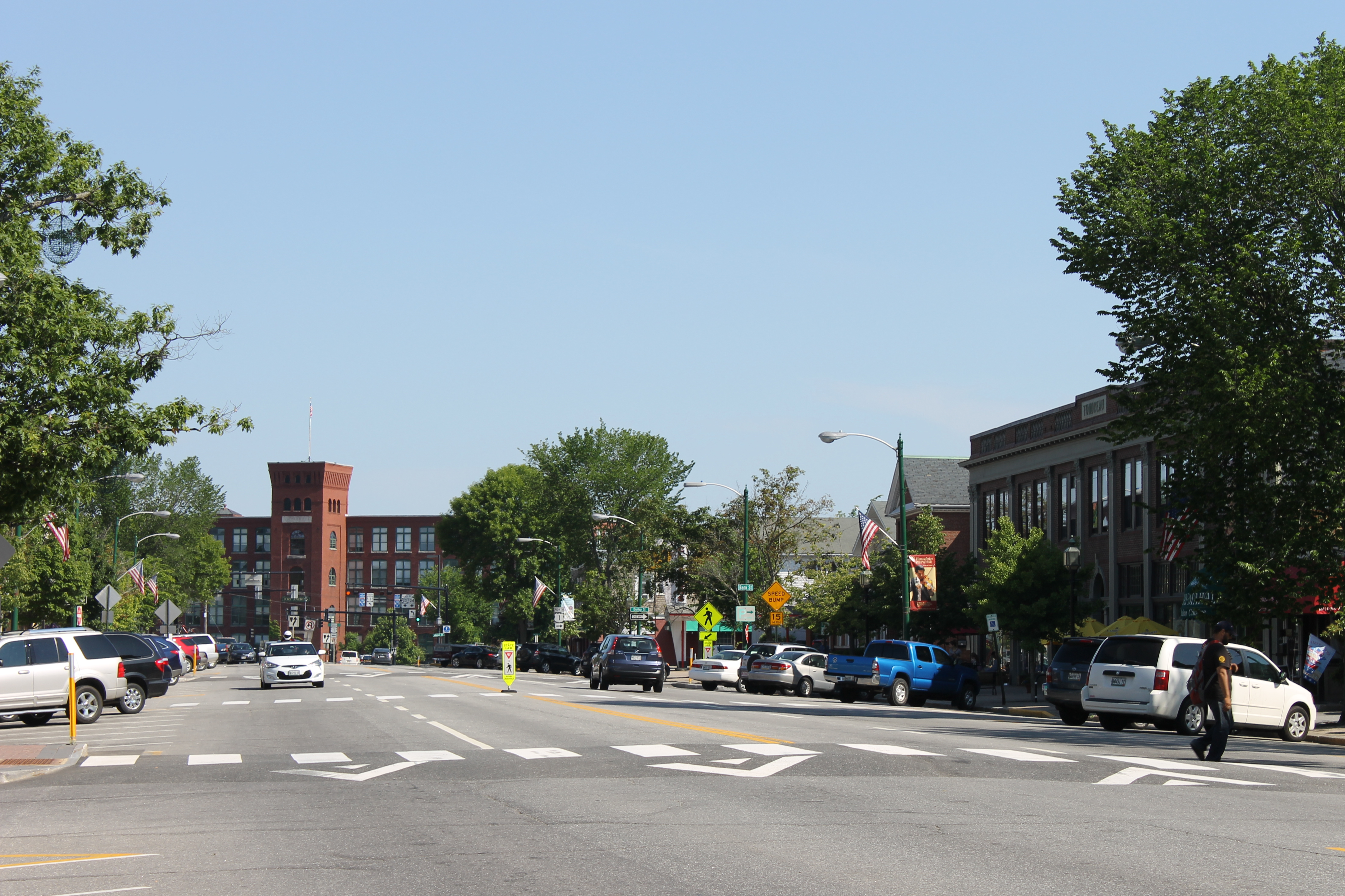 I took photo with Canon camera of a glimpse of downtown Brunswick, ME.